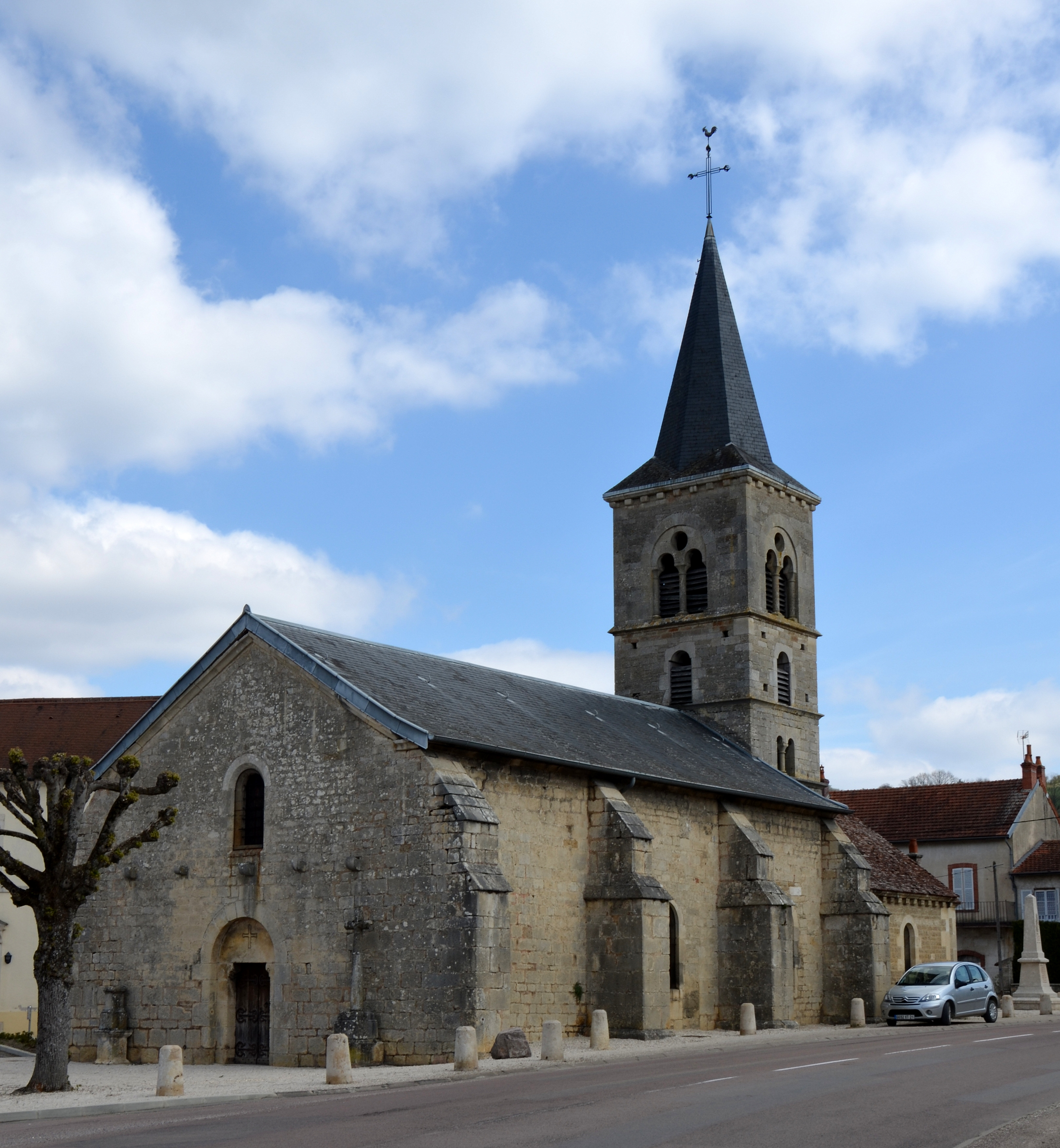 Church of Marmagne, Côte d'Or, Bourgogne, France